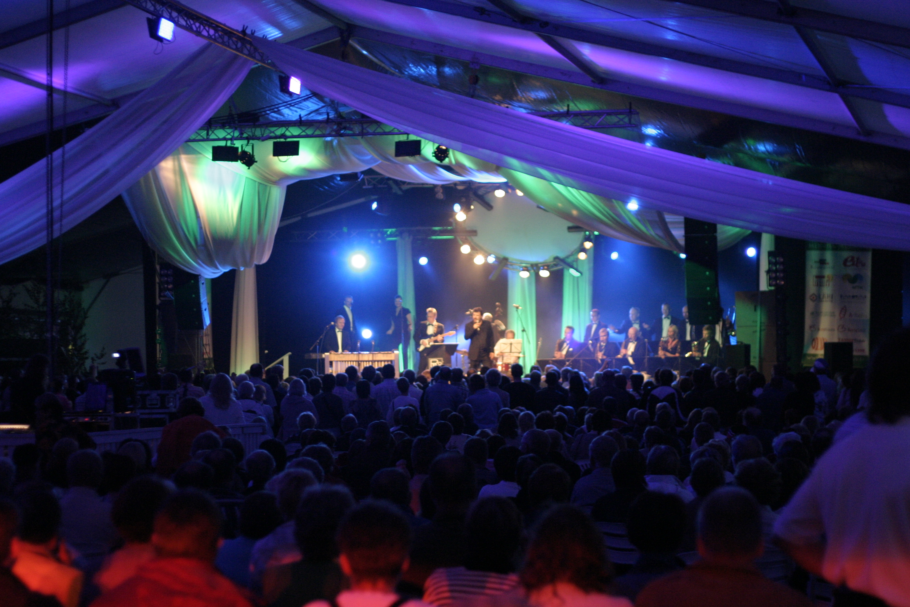 Riku Niemi in IskelmäNiityt musicfestival in Kiuruvesi year 2009